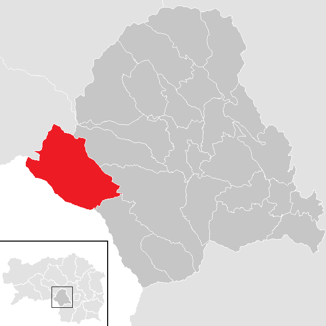 district Voitsberg